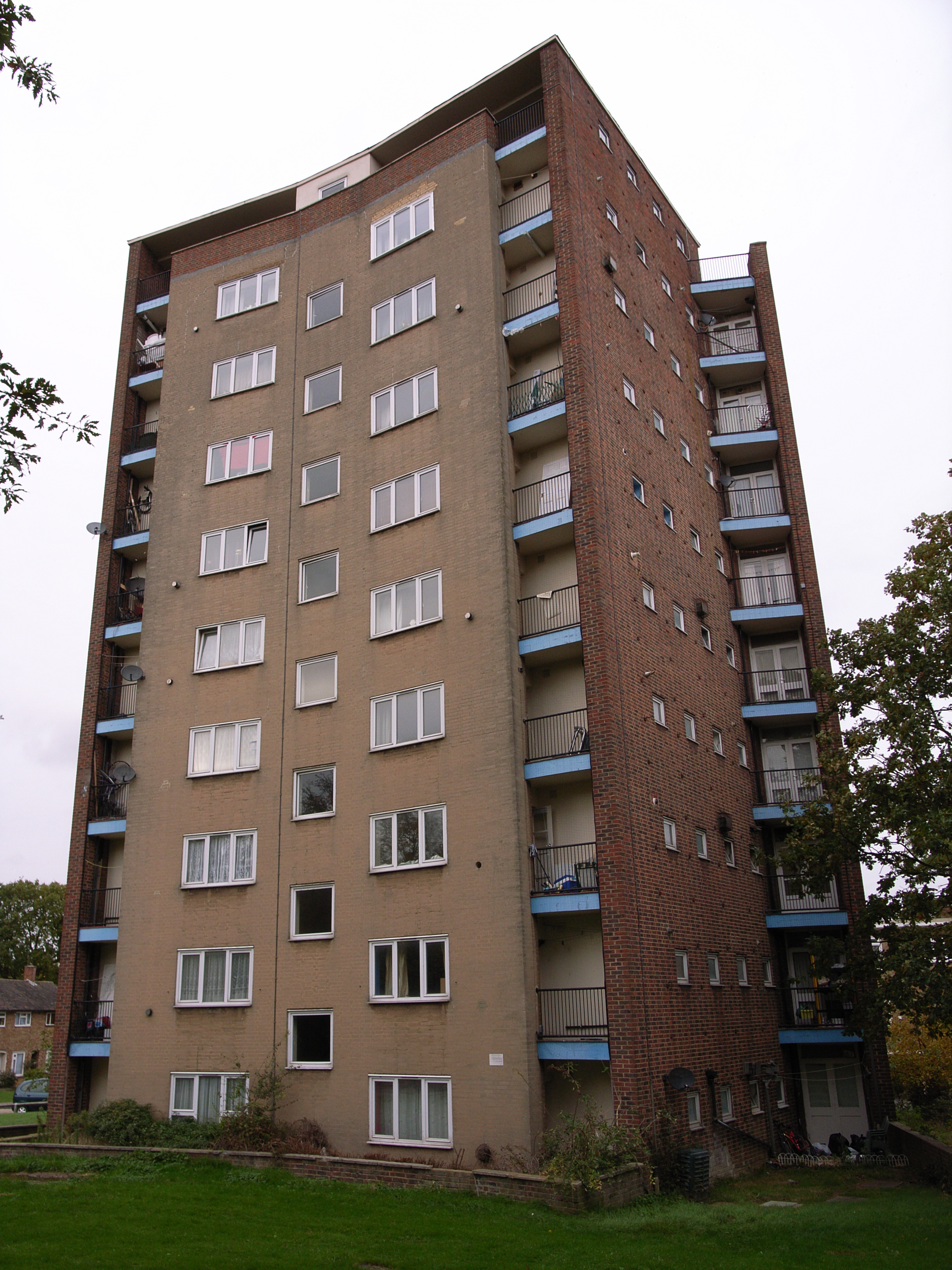 The Lawn (1951) by Frederick Gibberd, Harlow, Essex. Photo taken on a tour of Frederick Gibberd's work in London and Harlow with the 20th Century Society.